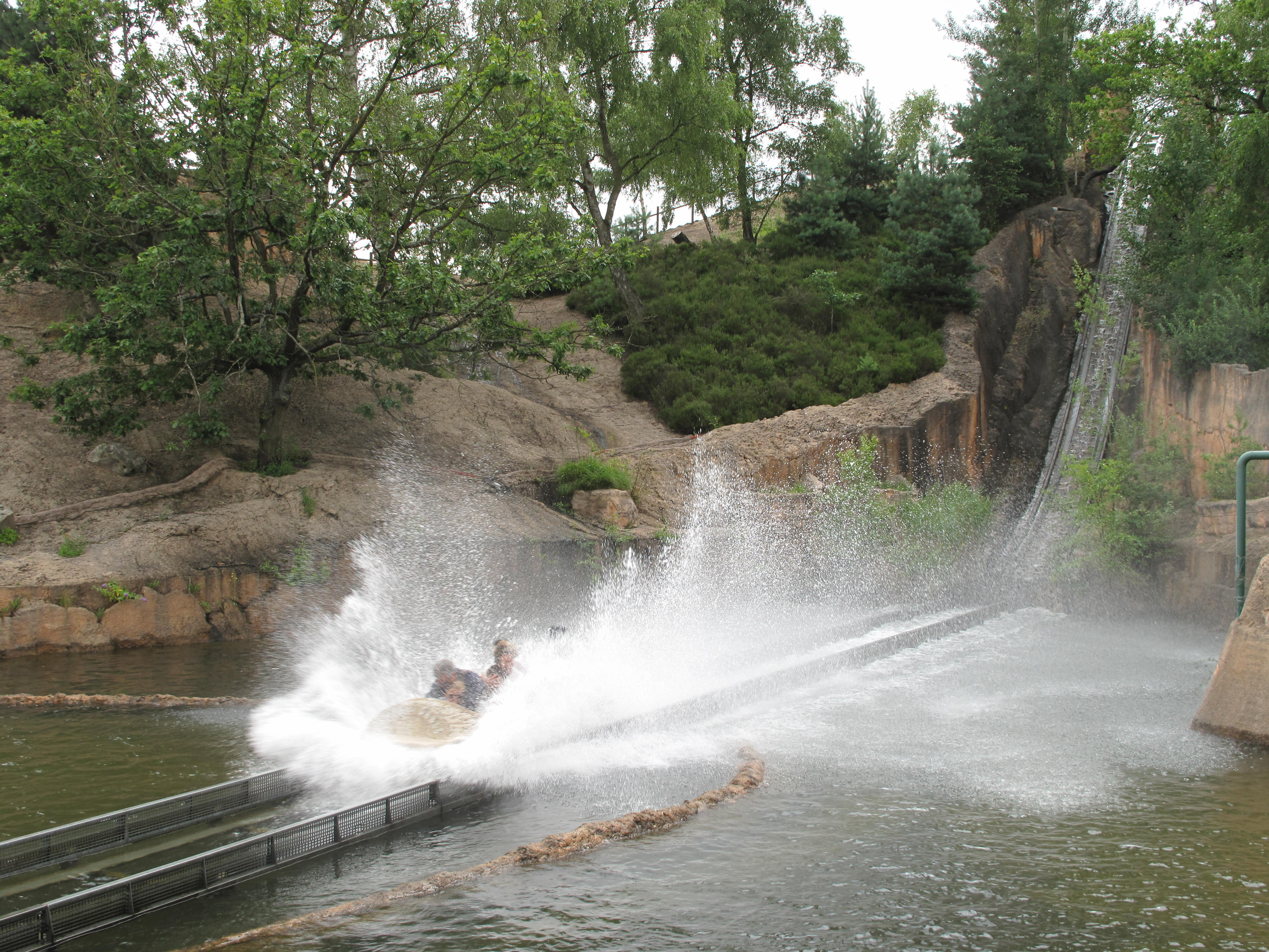 The arrival of "Cheyenne River" in the Mer de sable, near Paris, France.